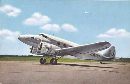 Commemorative postcard showing Japan Air Transport (JAT) Nakajima AT-2 transport